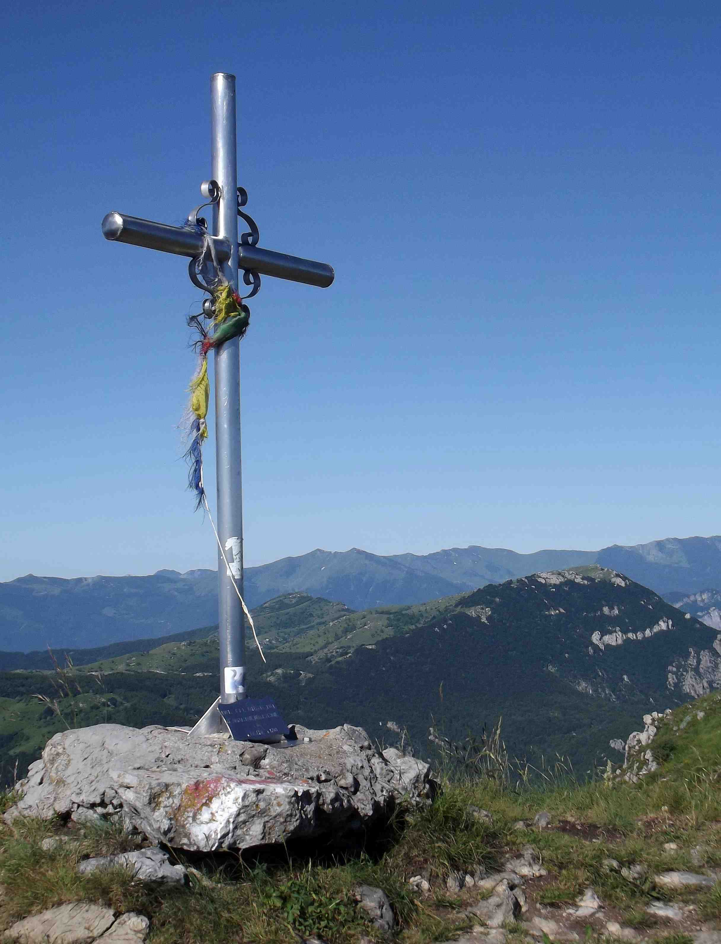 Mount Galero (Ligurian Prealps, Italy): summit cross; on the right mount Armetta and Dubasso This is a photography of Natura 2000 protected area with ID IT1323920